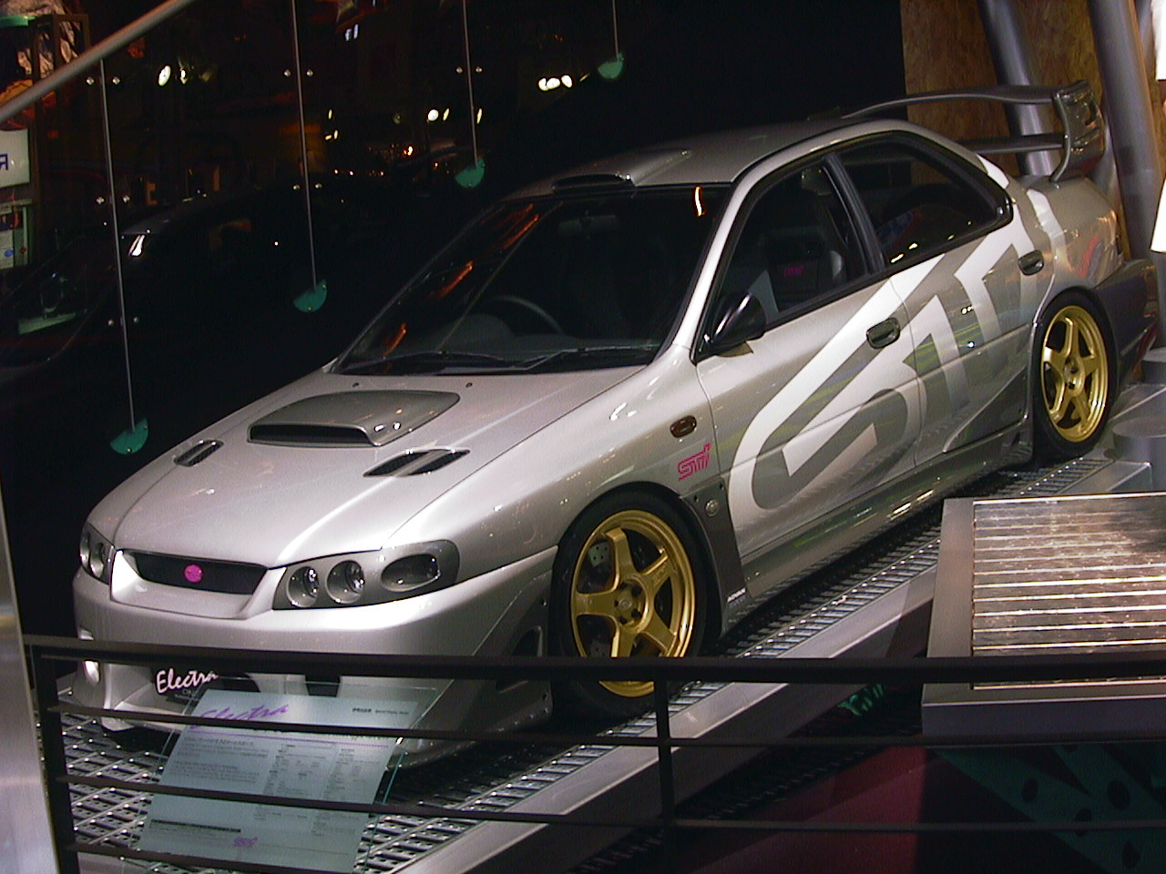 STI Electra ONE at Tokyo Motor Show 1999 This model is the base of S201.